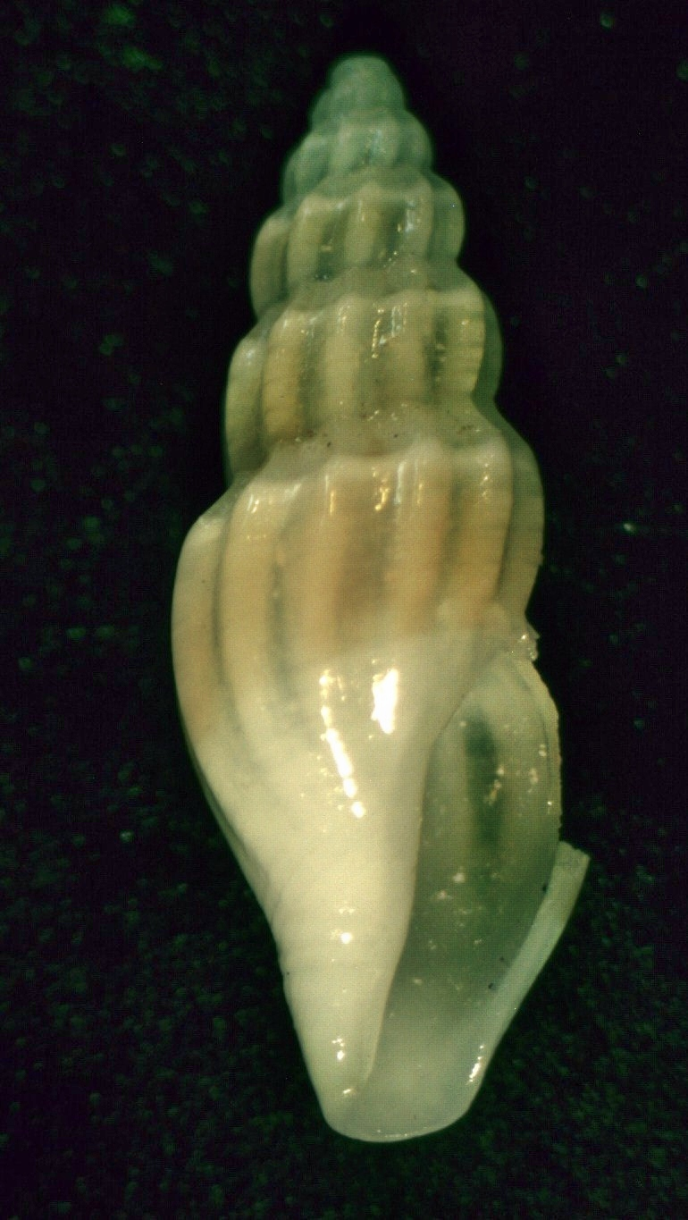 Guraleus pictusA. Adams & G. F. Angas, 1864, a cone snail from the family Conidae; South Australia